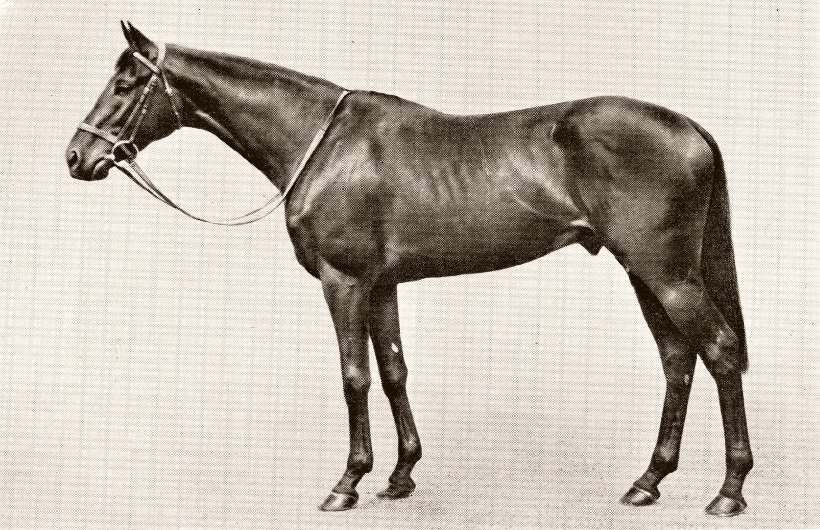 Tulyar (IRE) was a good racehorse, but disappointing as a sire.